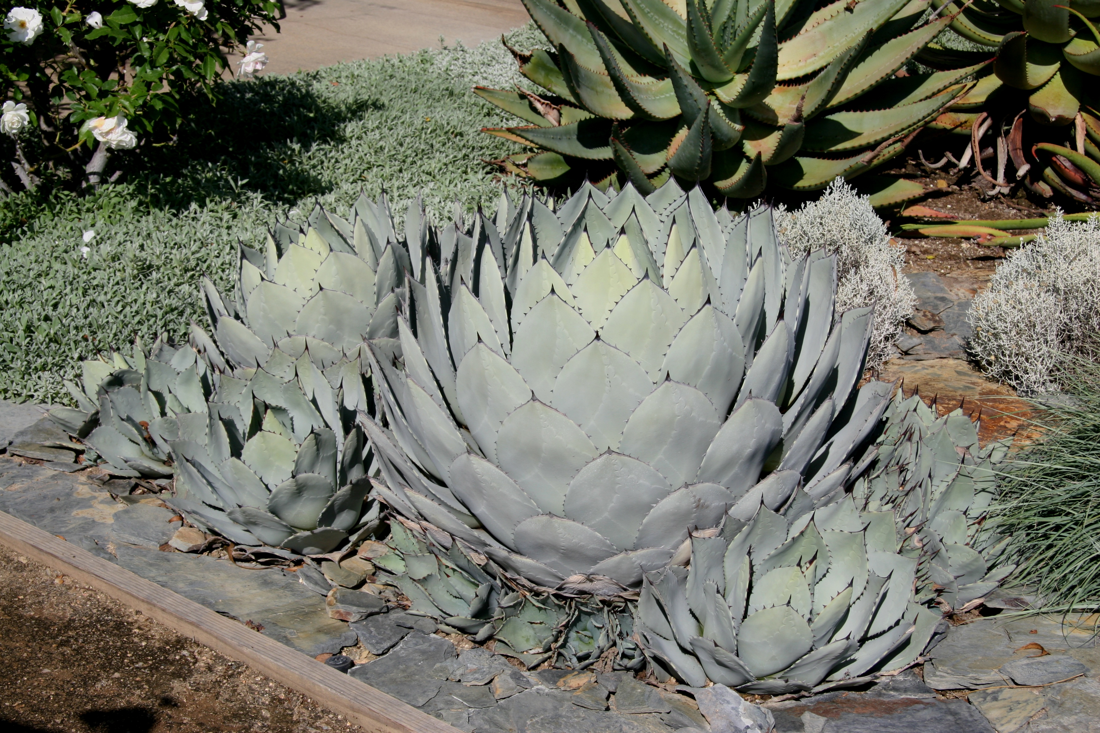 A private garden designed by Isabelle Greene in the Santa Barbara, California area. Visited and photographed 15 Sep 2006 on the Northwest Horticulture Society Santa Barbara Garden tour. I think this is Agave palmeri i091506 444